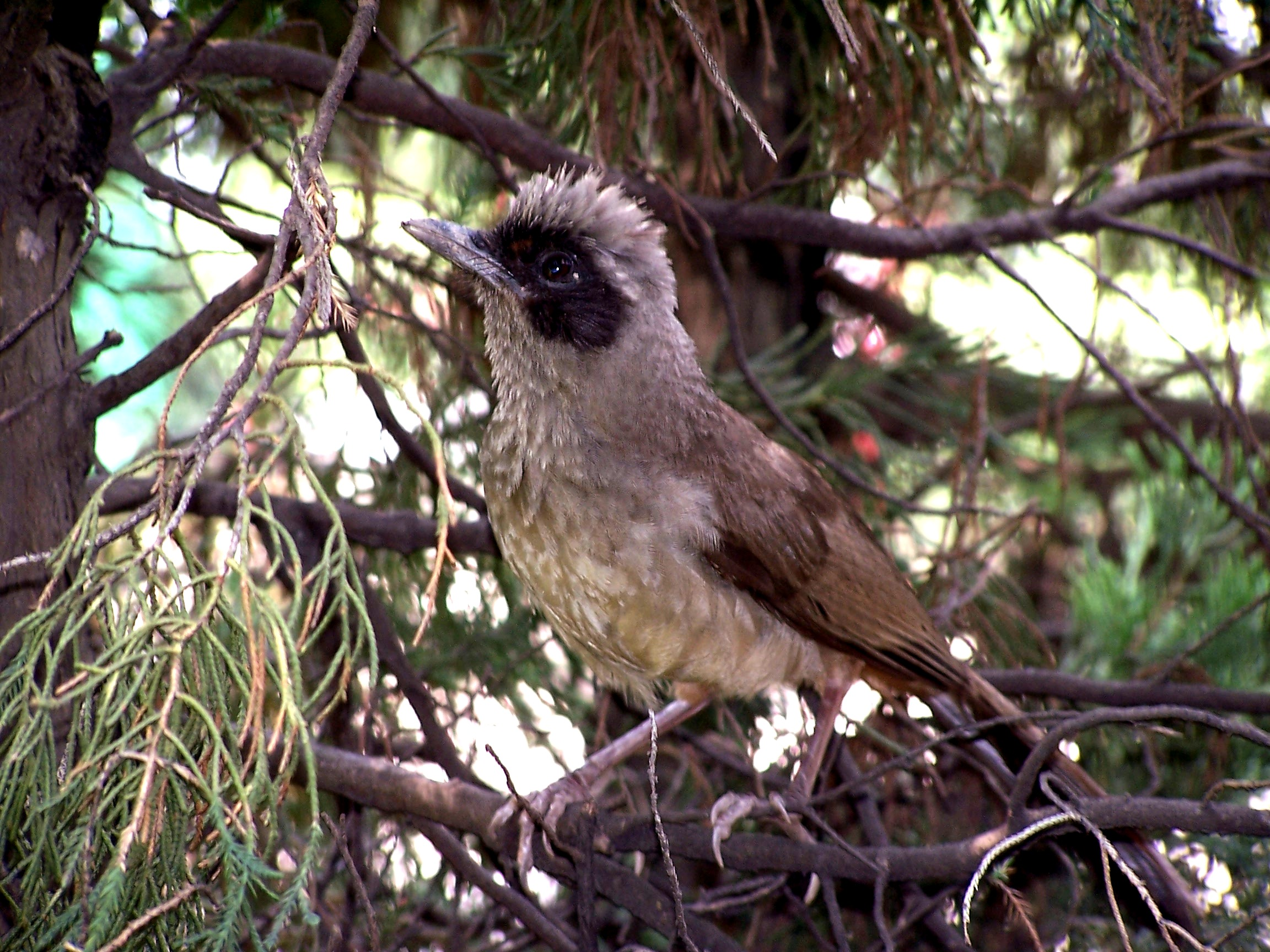 Masked Laughingthrush, Garrulax perspicillatus Original description: Saw these noisy and funny black faces quite often. But they mostly stay at the dark place under the trees, thus, not easy to take a clear photo of them. Lucky saw a few of them in very close distance today, and my flash help me to finish the photos nicely. :)